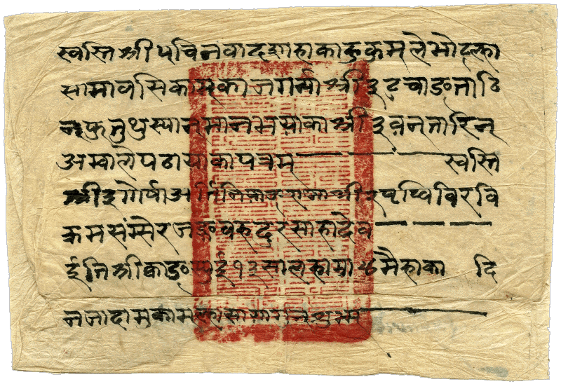 A letter from the Amban Wen Shuo (文碩) of Tibet (Qing Dynasty governor), to Khadga Shumsher Jung Bahadur Rana, Governor of Palpa in Nepal, 1887.